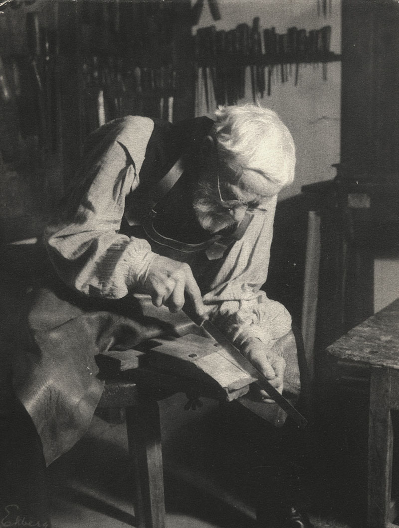 Comb maker in a workshop at the Swedish open-air museum Skansen, Stockholm